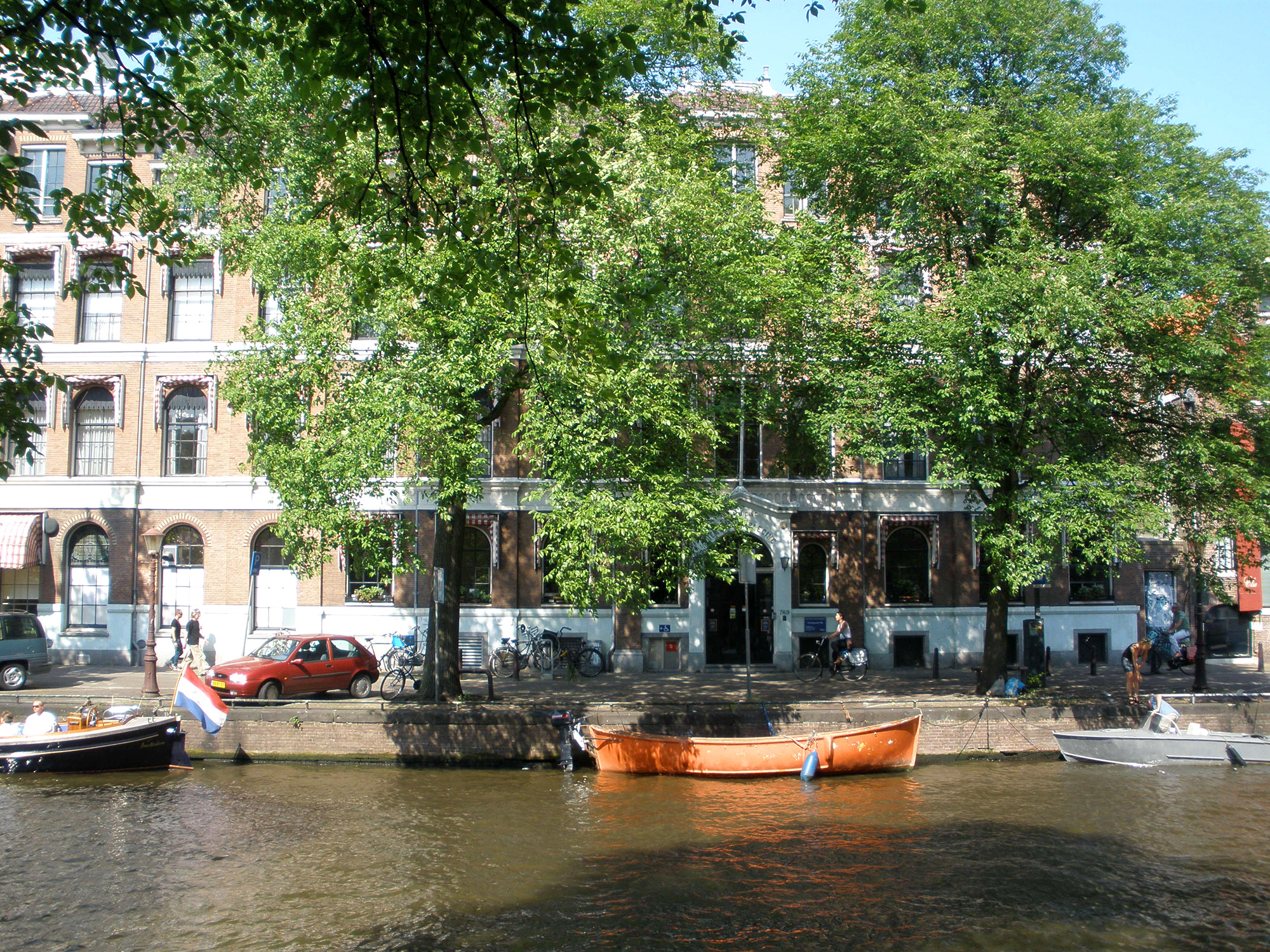 The Prinsengrachtziekenhuis, a former hospital on the Prinsengracht canal in Amsterdam